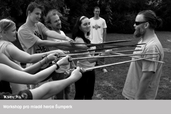 Petr Nůsek Personality rights warningAlthough this work is freely licensed or in the public domain, the person(s) shown may have rights that legally restrict certain re-uses unless those depicted consent to such uses. In these cases, a model release or other evidence of consent could protect you from infringement claims.